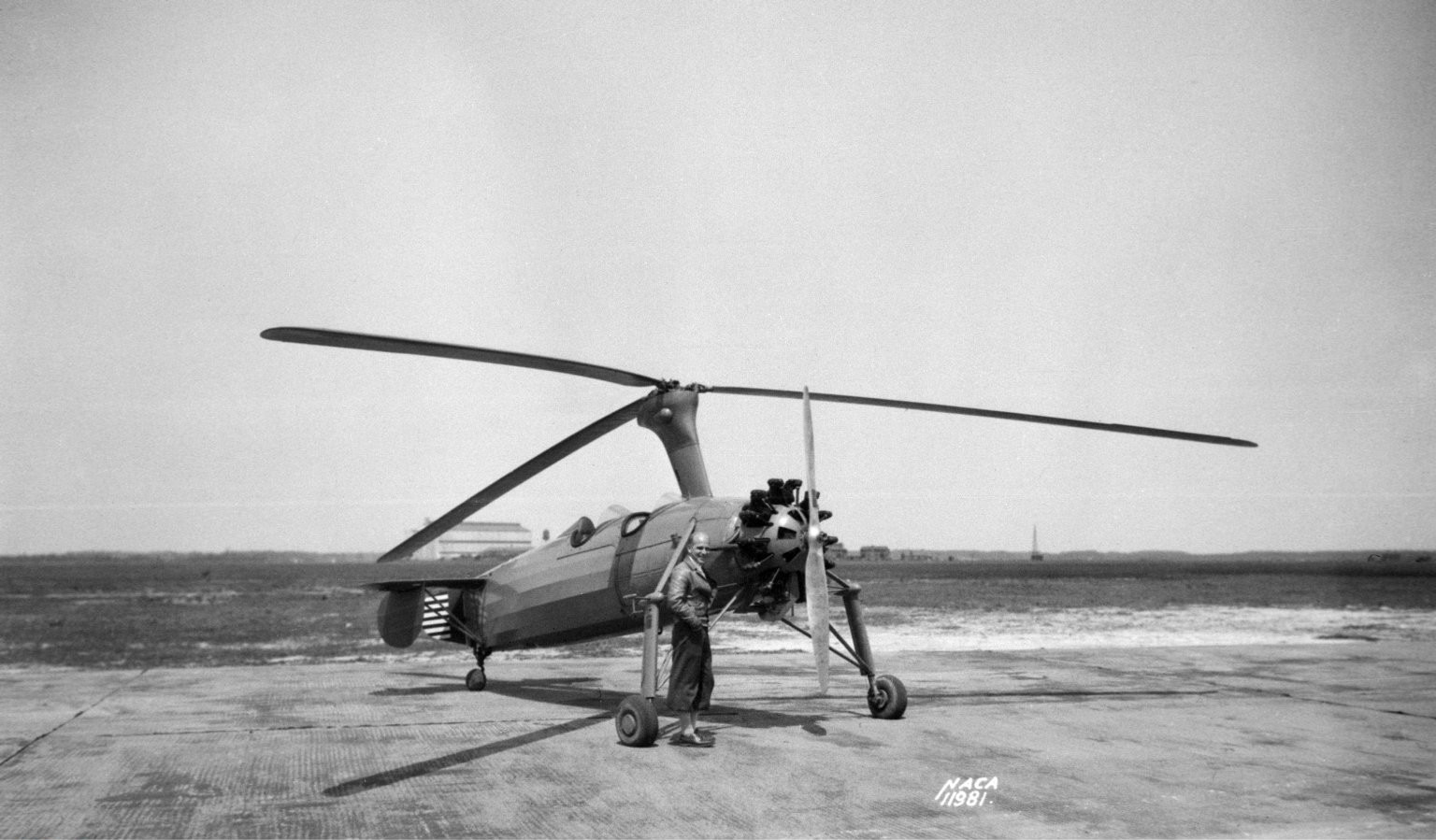 Kellett YG-1 autogyro